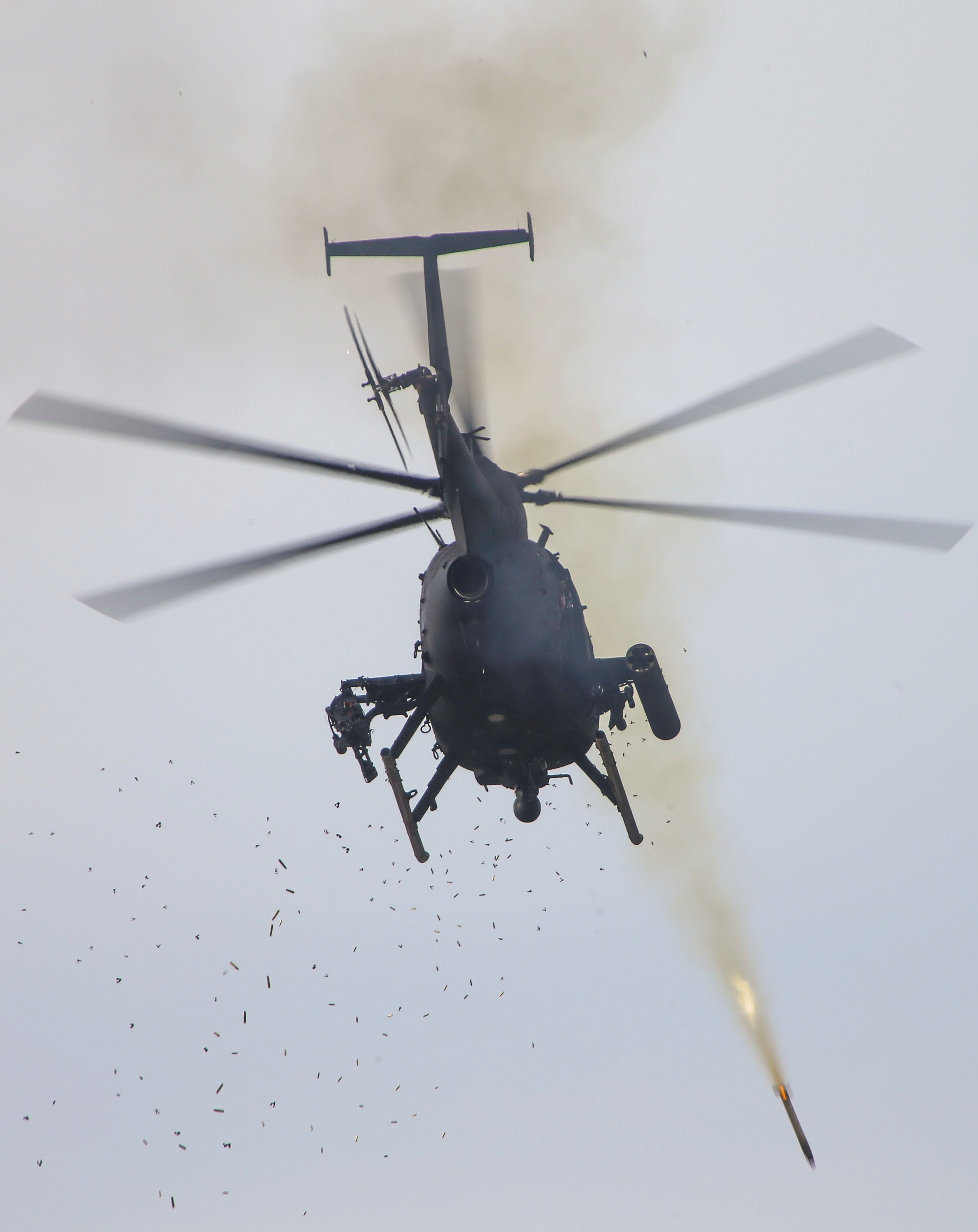 A U.S. Army AH-6 Little Bird in support of Marine Aviation Weapons and Tactics Squadron One (MAWTS-1) fires rockets at designated targets during an offensive air support exercise at Mt. Barrow, Chocolate Mountain Aerial Gunnery Range, Calif., April 5, 2016. The exercise is part of Weapons and Tactics Instructor (WTI) 2-16, a seven-week training event hosted by Marine Aviation Weapons and Tactics Squadron One (MAWTS-1) cadre. MAWTS-1 provides standardized tactical training and certification of unit instructor qualifications to support Marine Aviation Training and Readiness and assists in developing and employing aviation weapons and tactics. (U.S. Marine Corps photograph by SSgt. Artur Shvartsberg, MAWTS-1 COMCAM/Released) Unit: Marine Corps Air Station Yuma Combat Camera